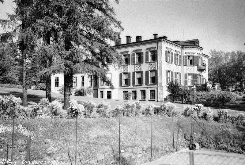 Villa Frognæs, Frognæs Manor. Drammensvn. 79 in Oslo.